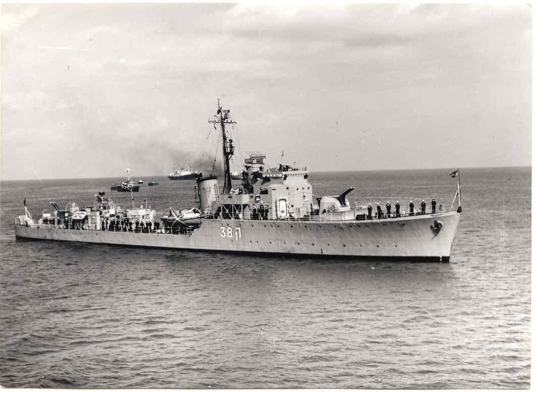 The Israeli Navy Ship Haifa K-38 -Ex Ibrahim El-Awall - entering Ajaxio port while crew at Honorrary Positions..